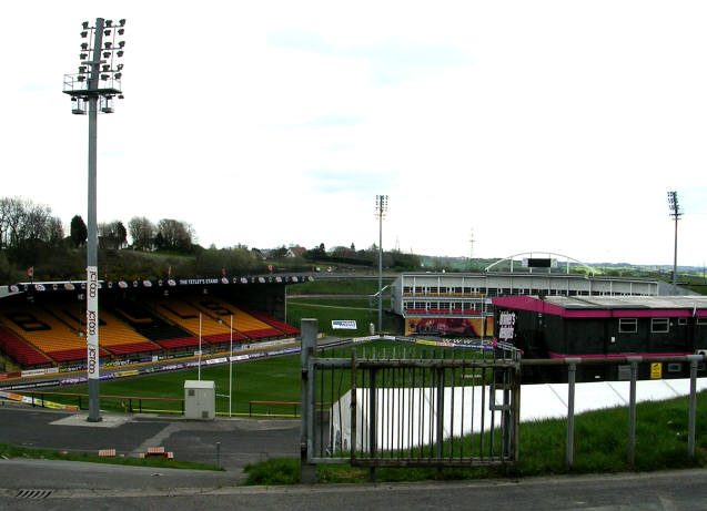 Grattan Stadium - Rooley Avenue Formerly known as Odsal Stadium, it is the home of Bradford Bulls Rugby League Team.